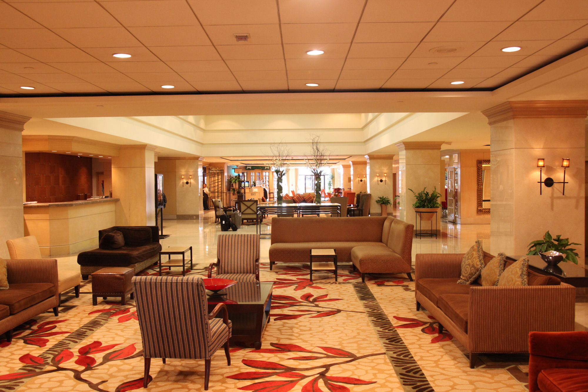 Lobby of the L'Enfant Plaza Hotel in Washington, D.C., in the United States. Looking south lengthwise through the lobby area.